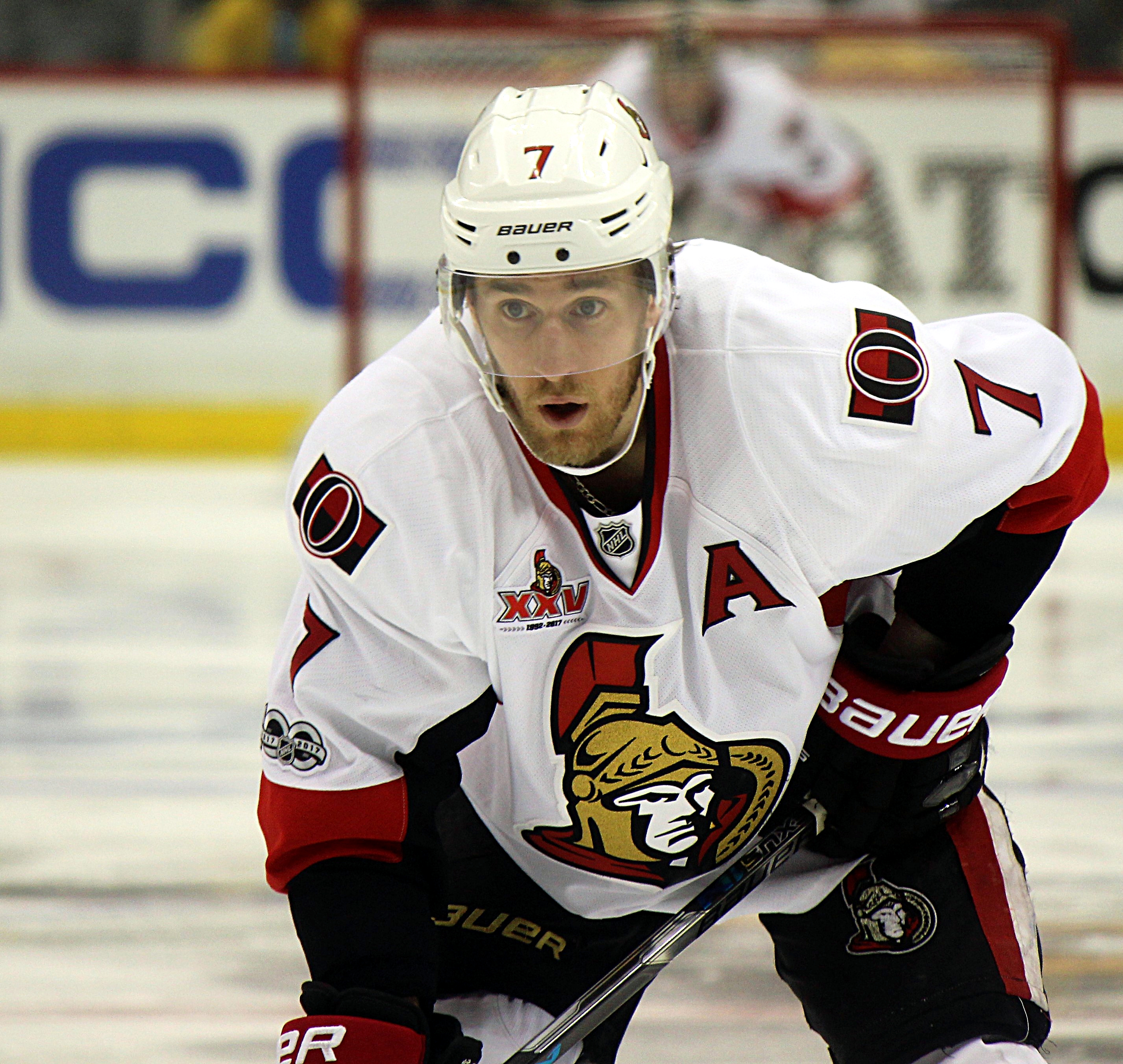 Ottawa Senators forward Kyle Turris during a playoff game against the Pittsburgh Penguins, May 13, 2017, at PPG Paints Arena in Pittsburgh, PA.